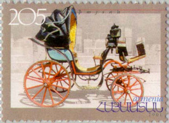 Stamp of Armenia